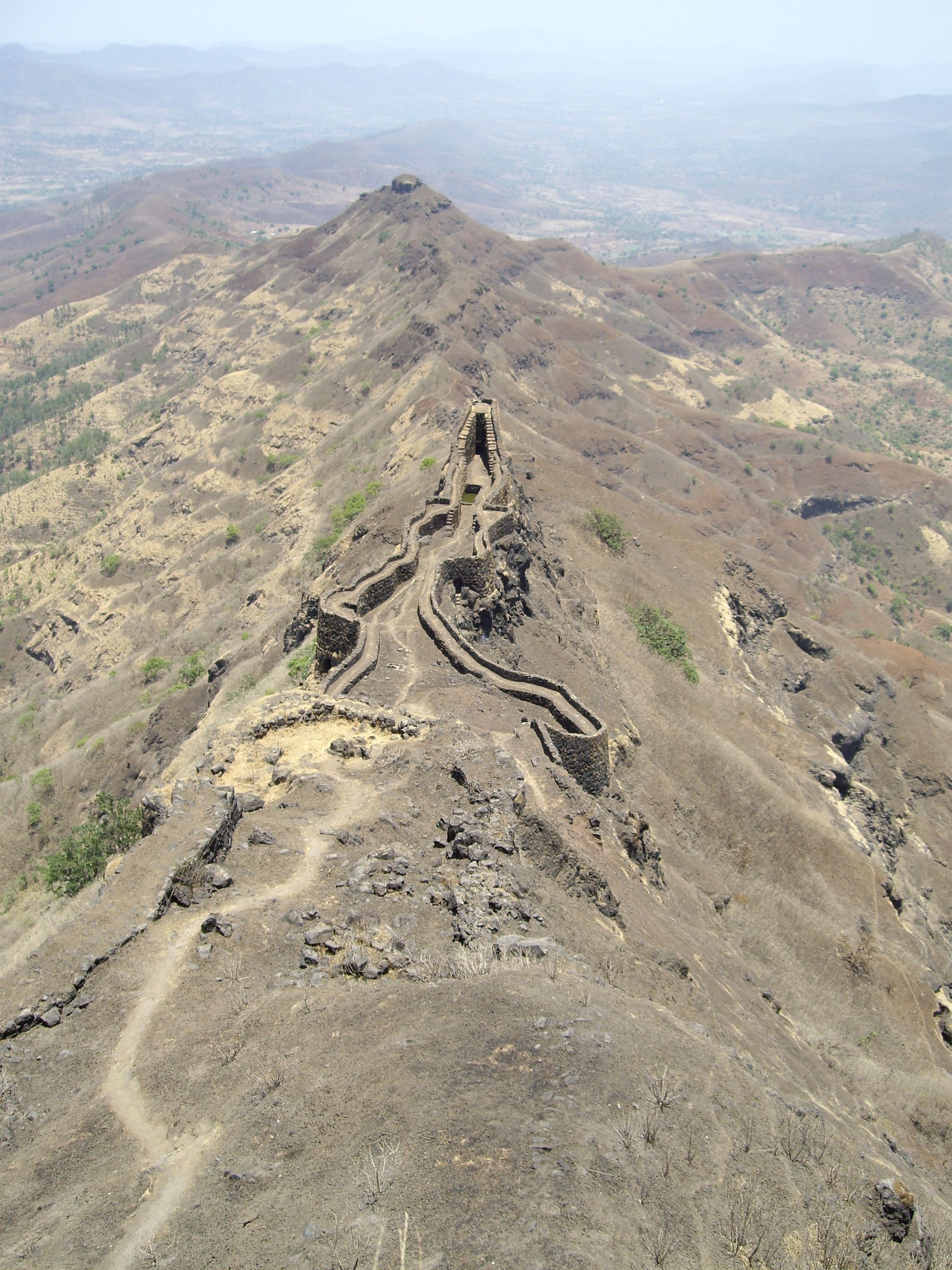 Place : Fort Torna